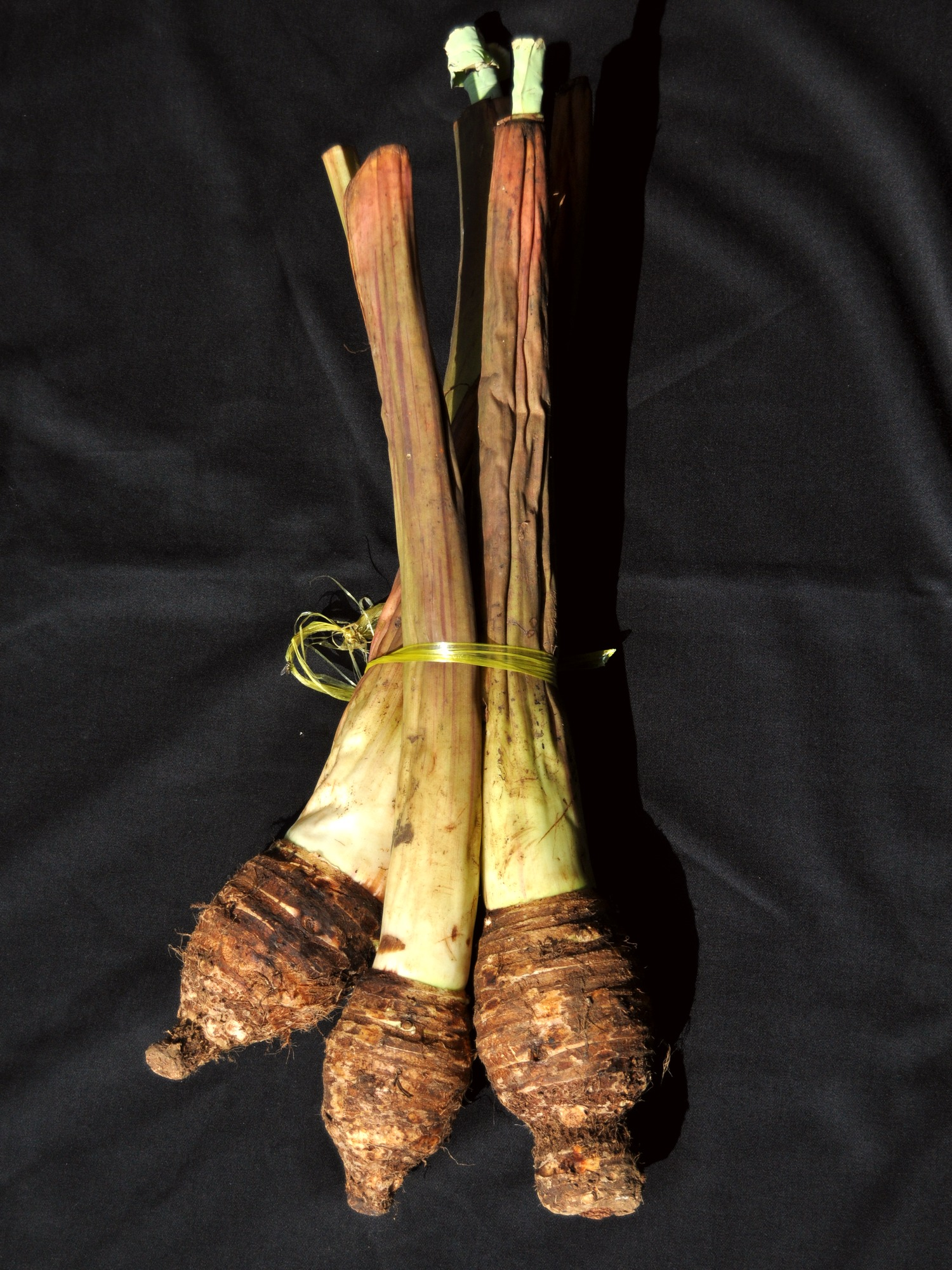 Taro, Colocasia esculenta corms. From Bogor, West Java, Indonesia.